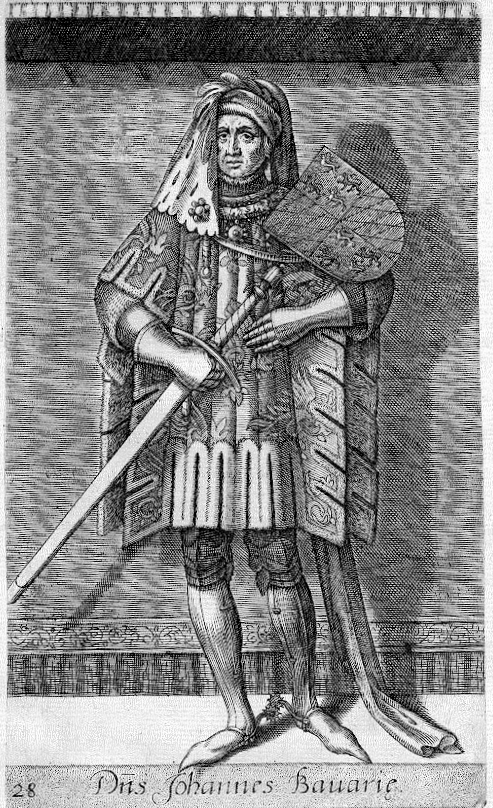 John III, Duke of Bavaria-Straubing